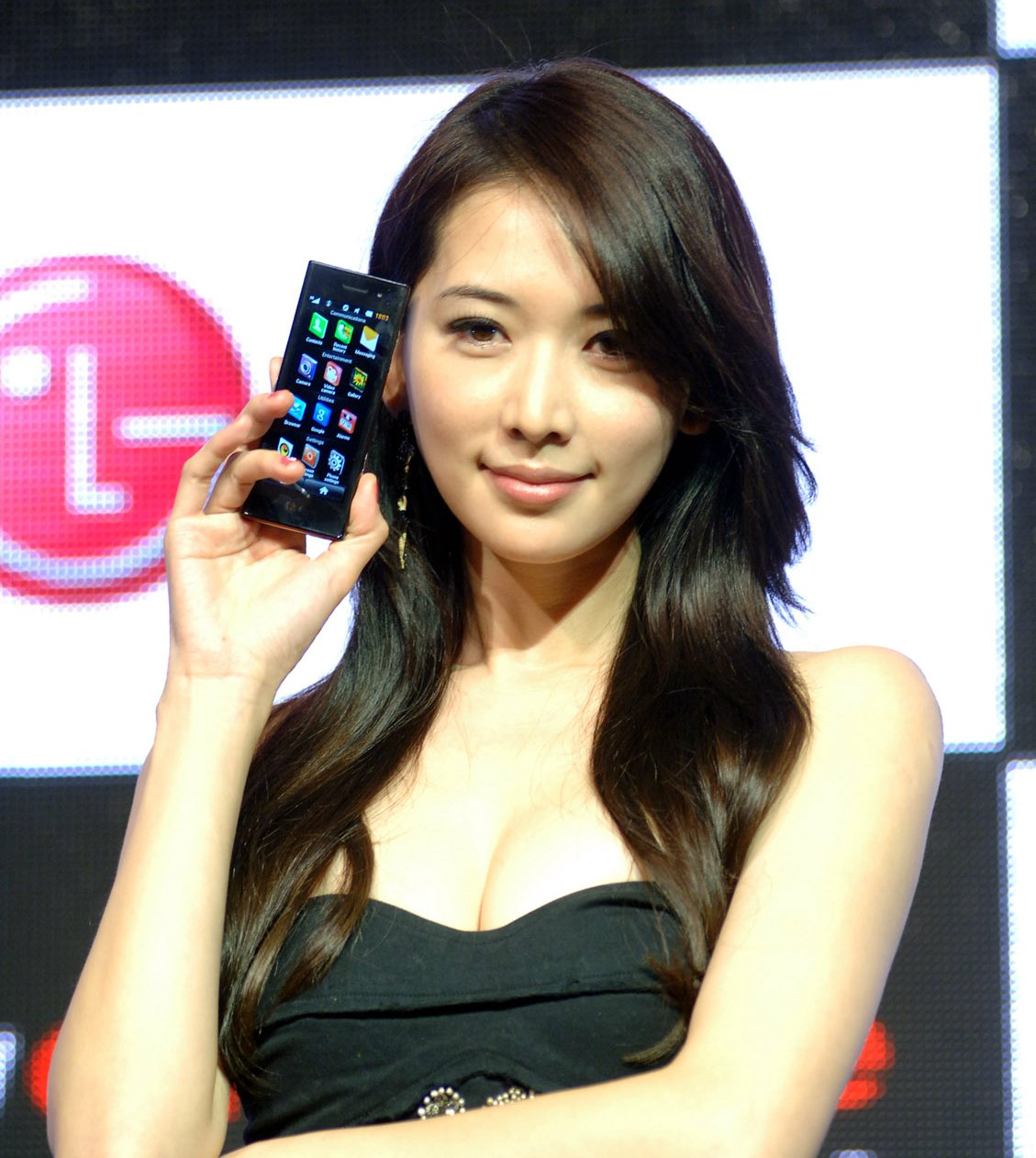 Lin Chi-ling (林志玲) at the LG New Chocolate Phone launching event for the BL40, 4 November 2009, Hong Kong